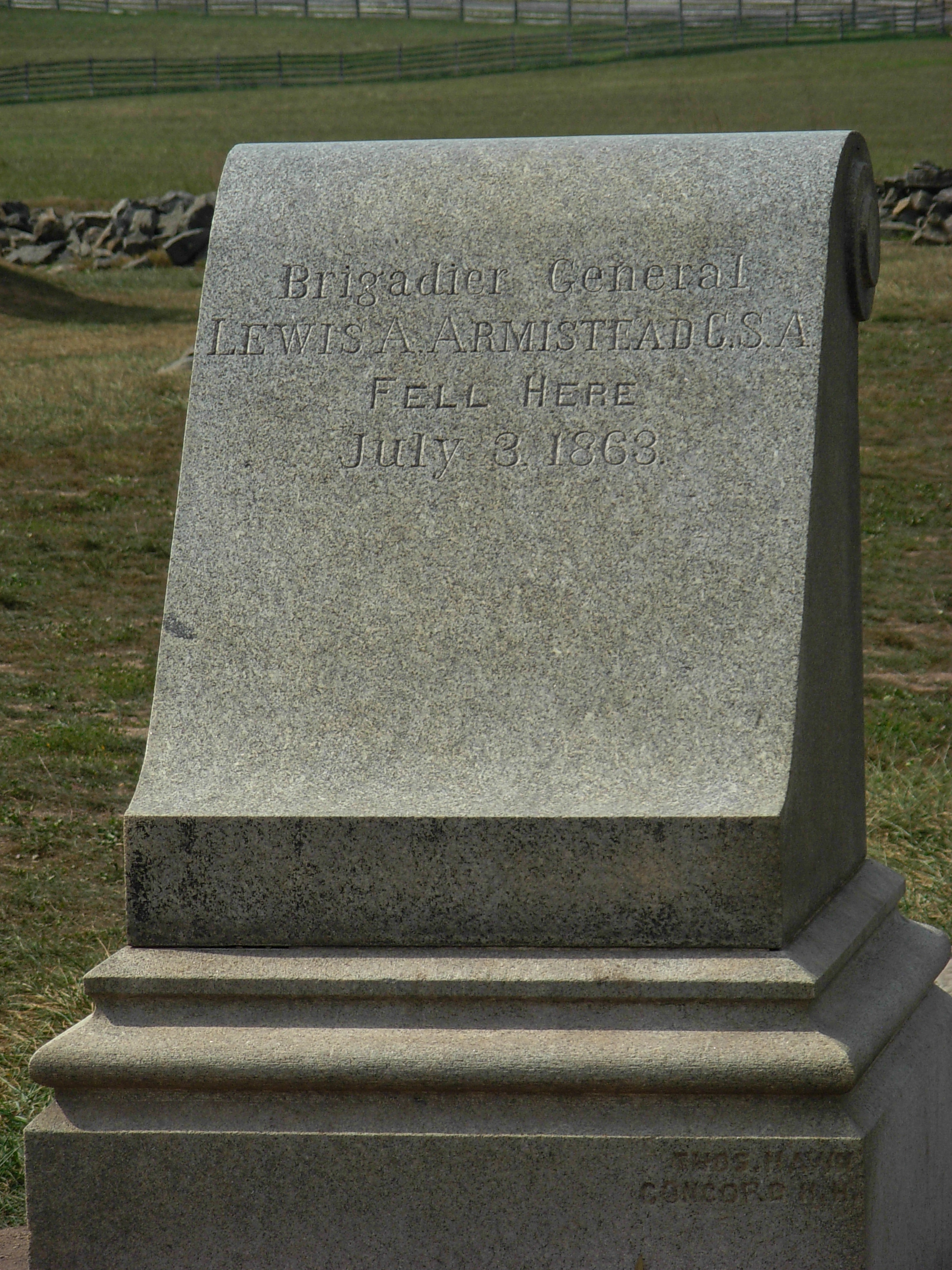 Gettysburg National Military Park and Gettysburg National Cemetery. Marker for the place where Confederate General Lewis Armistead fell.